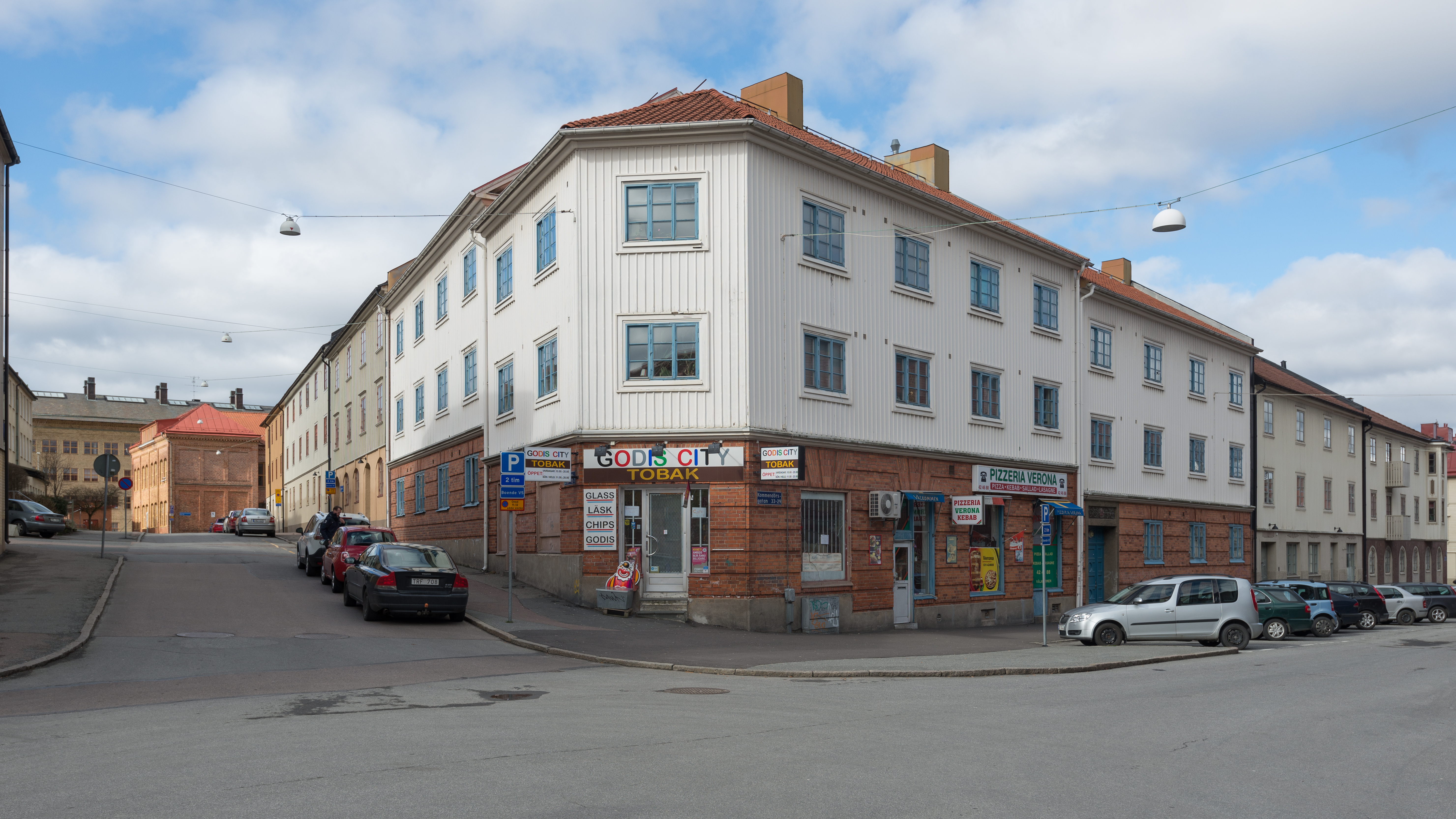 City block Saturnus seen from Kommendörsgatan. Majorna, Göteborg.